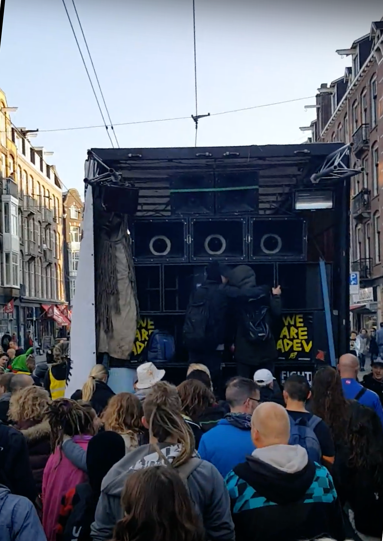 This picture was taken during a street parade at Amsterdam Dance Event 2016.